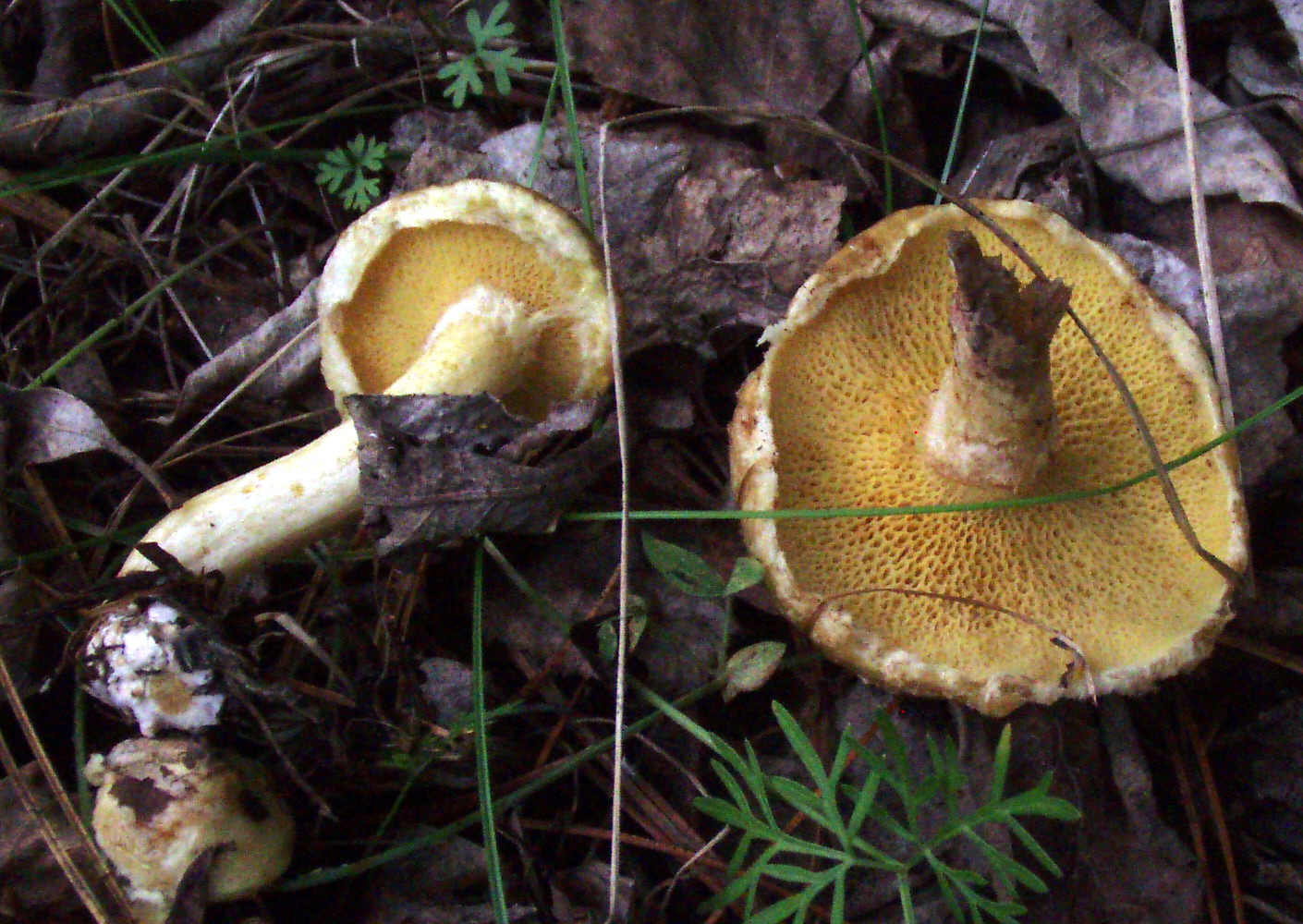 The fungus Suillus sibiricus (Singer) Singer. Specimen photographed in Yurovskoe, Tyumenskaya oblast’, Russia. "Notes: under Pinus sibirica"